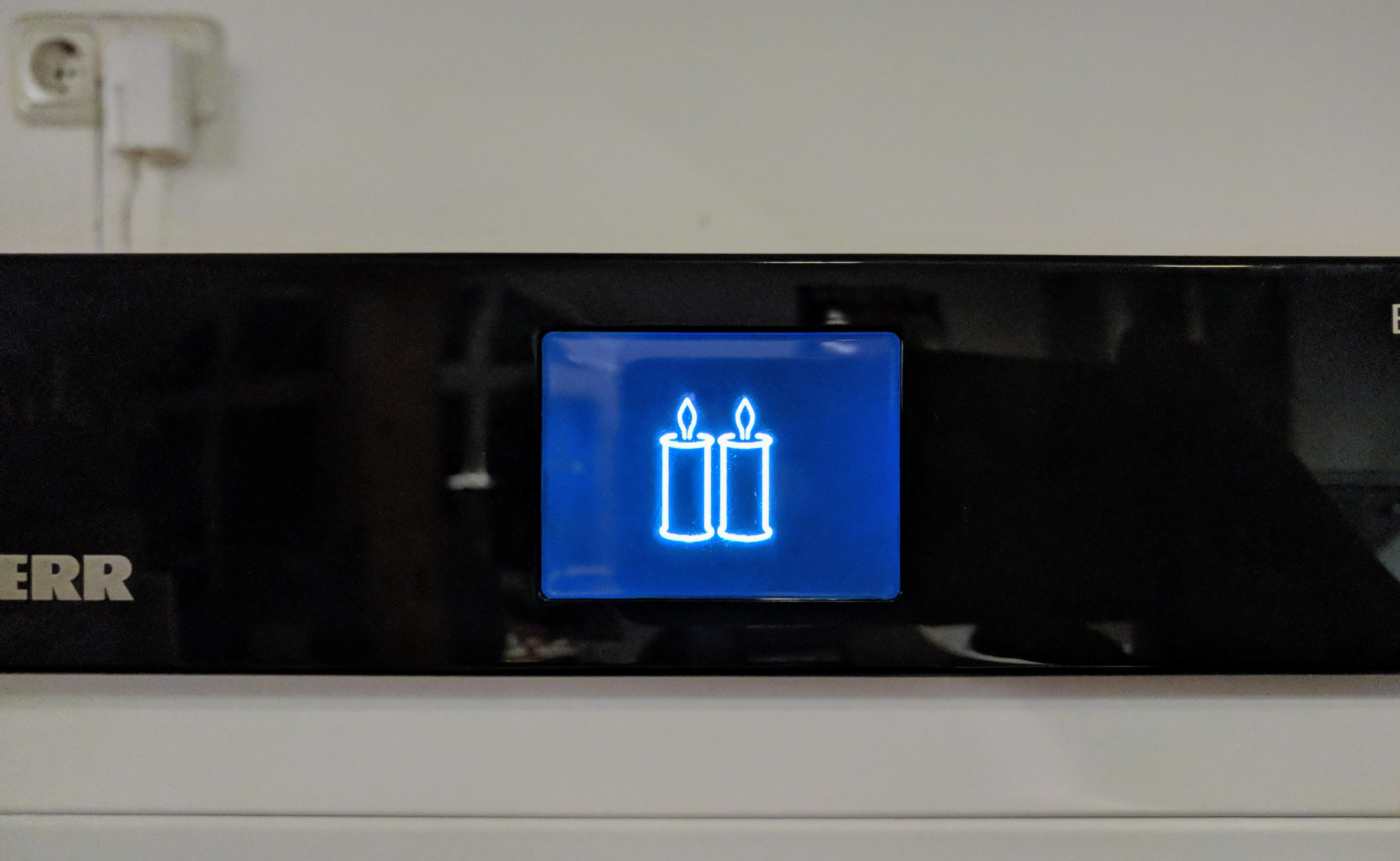 Refridgerator's display shows symbol for sabbath mode